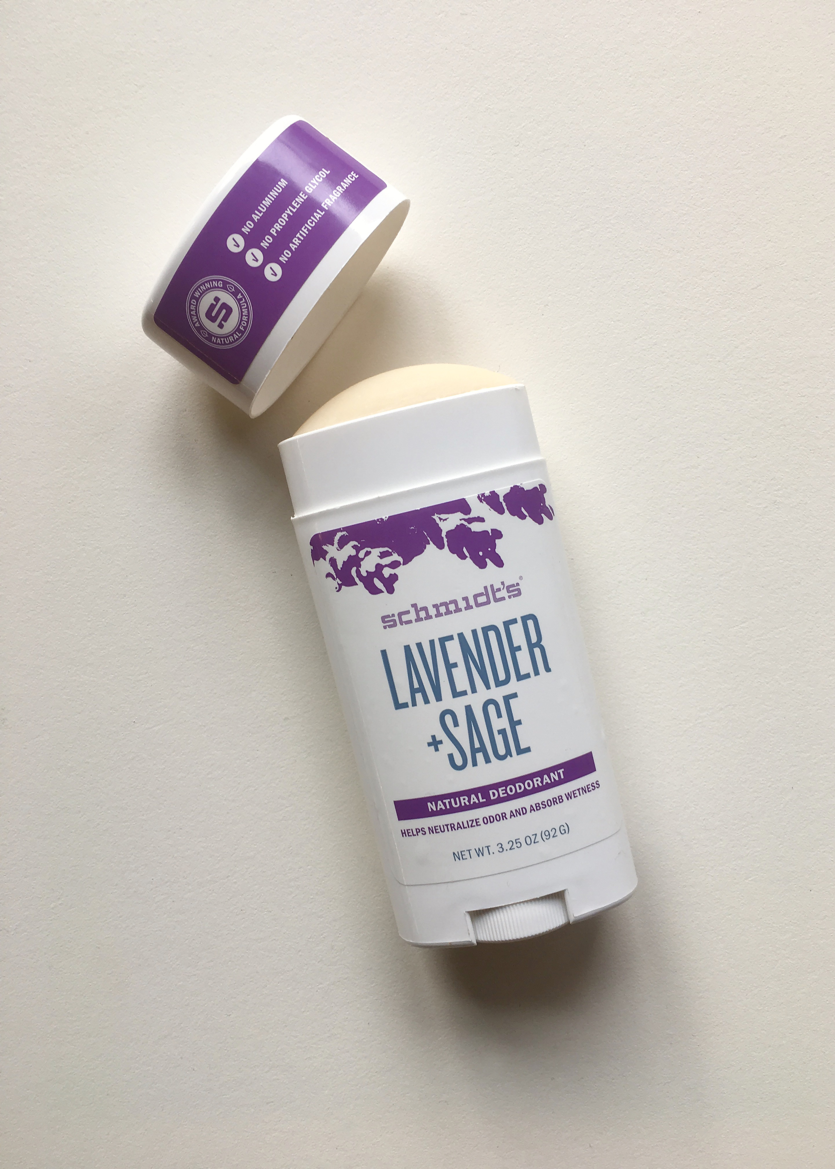 An aluminum-free deodorant. Deodorants without aluminum are sometimes recommended for patients with breast cancer or undergoing chemotherapy.